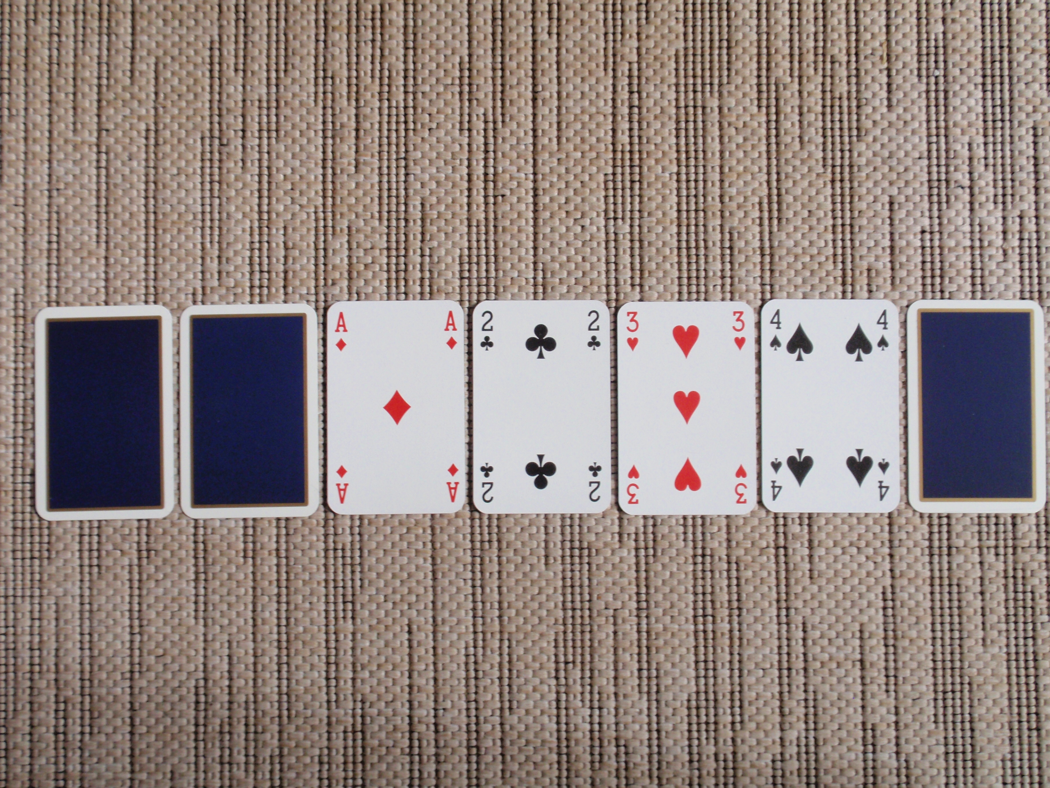 Razz - hand with all cards dealt